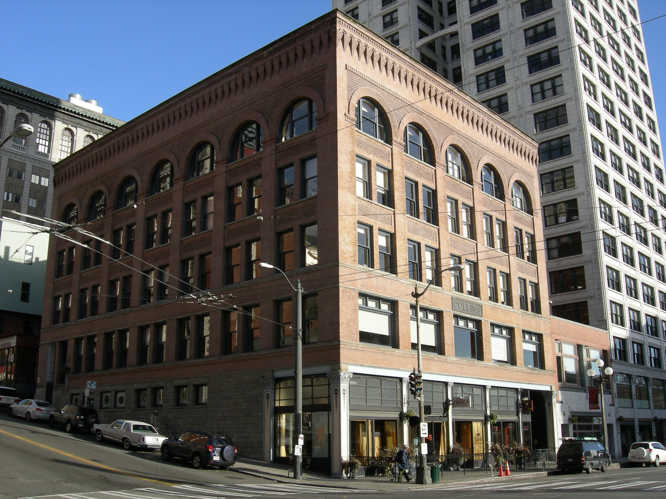 The Collins Block (a.k.a. Collins Building), 520 Second Avenue (corner of James), Pioneer Square neighborhood, Seattle, Washington, USA. Built 1894; among its initial tenants was the Seattle Public Library: see Paul Dorpat, Frame 8, Seattle Public Library -- A Pictorial History of Times and Tomes Past -- Slide Show, HistoryLink. Also visible in this photo are part of the King County Courthouse (at left) and Smith Tower (at right). For more information see Summary for 520 2nd AVE / Parcel ID 0939000025, Seattle Department of Neighborhoods.